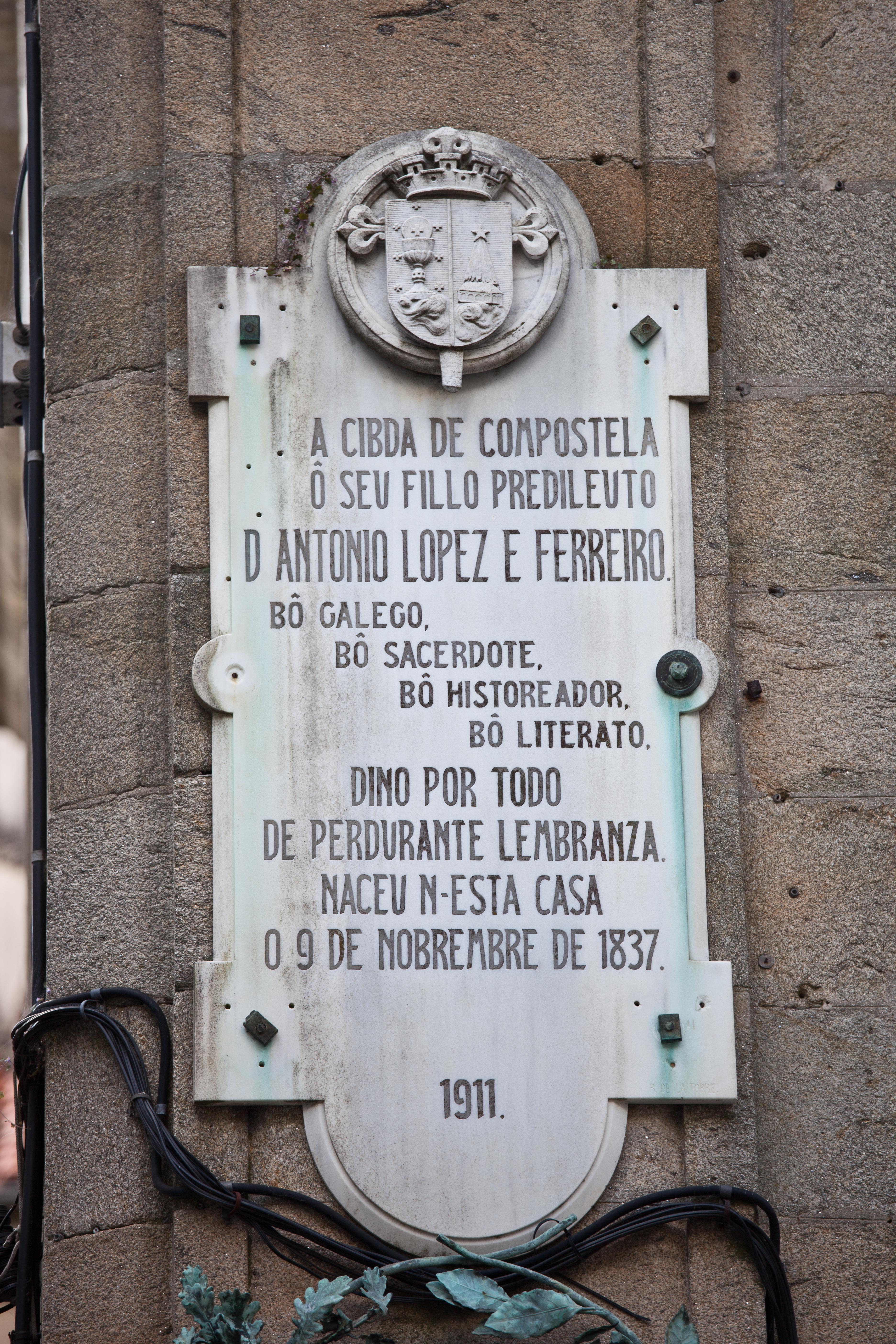 House of López Ferreiro, Santiago de Compostela